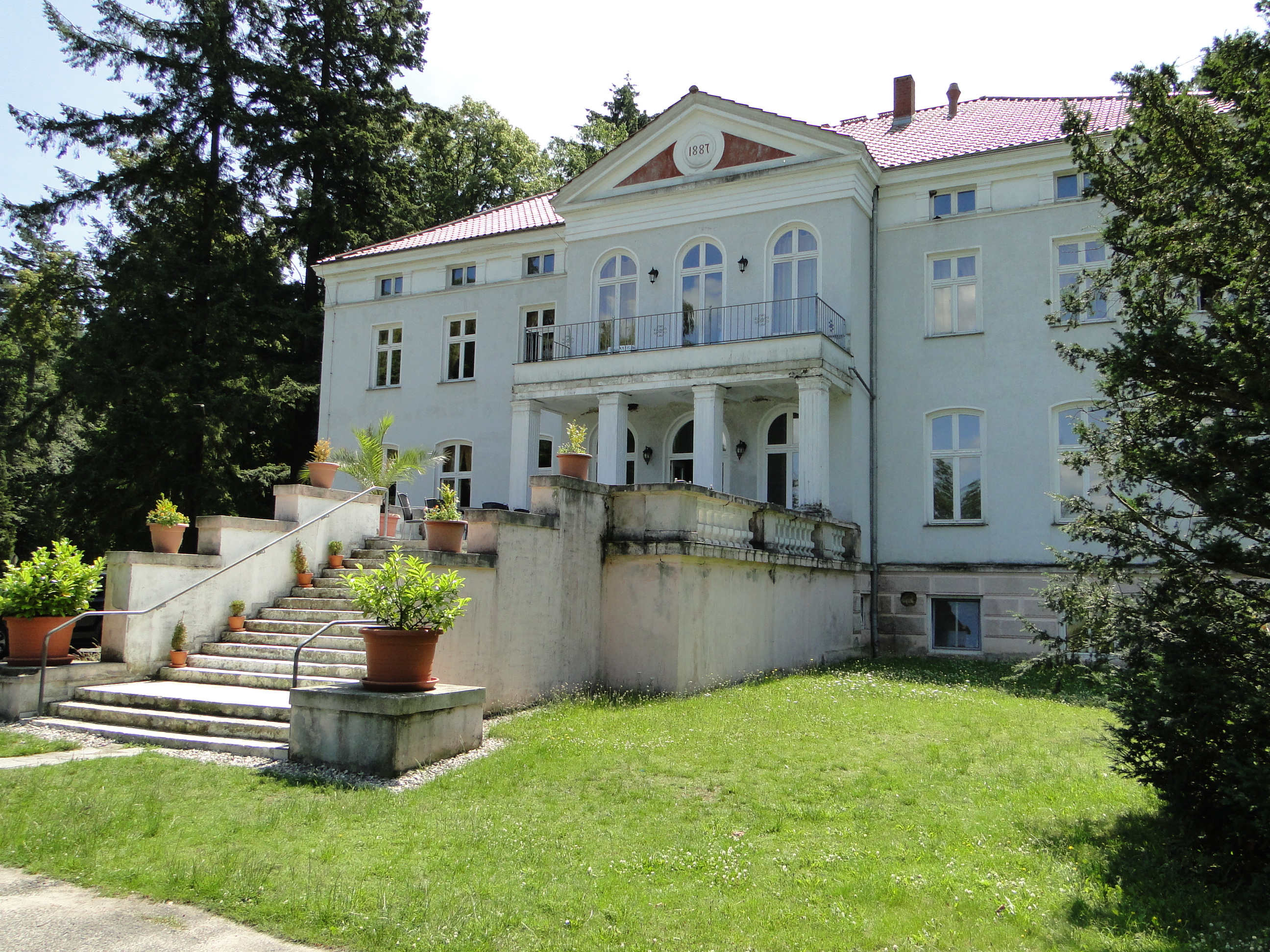 Former manor house in Neu Sammit, district Güstrow, Mecklenburg-Vorpommern, Germany